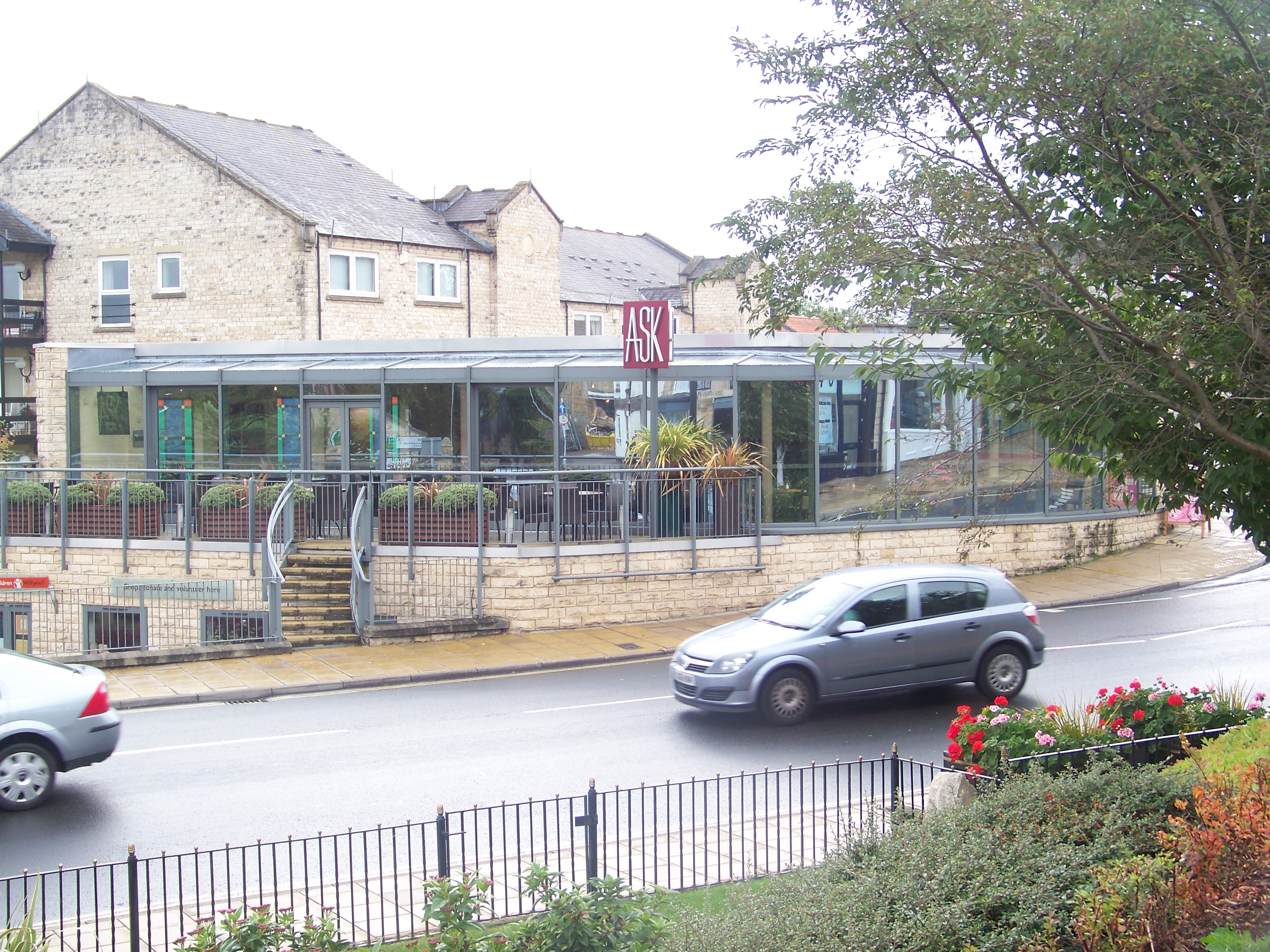 Ask, an Italian restaurant on the Market Place in Wetherby, West Yorkshire. The Rendezvous cafe used to occupy this site and was a haunt of local adolescents in the 1990s because of its pool tables in the cellar, that building however was demolished around 2002/2003 ish. Taken on the afternoon of Monday the 13th of September 2010.